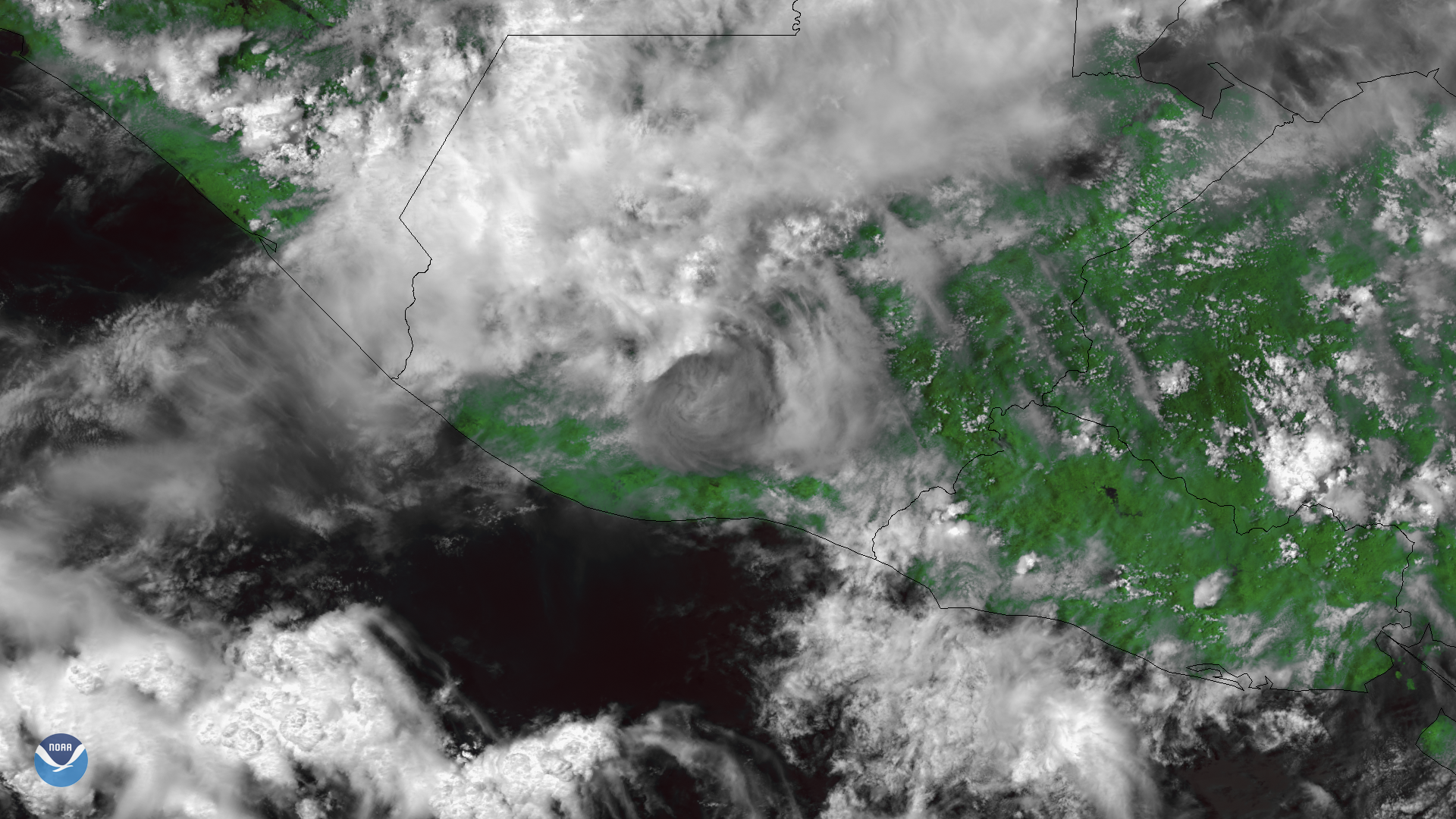 June 03, 2018 Fuego Volcano Erupts in Guatemala The Suomi NPP satellite's VIIRS instrument captured this image of the Fuego Volcano eruption in Guatemala on June 3, 2018. Despite numerous clouds overhead, the dark ash cloud is easily distinguishable in the center of the image. Known locally as "Volcán de Fuego", or "Fire Volcano," the 12,340 foot stratovolcano is one of the most active in Latin America, located about 27 miles from the capital, Guatemala City. While the volcano erupted as recently as February 2018, the latest event has been far more catastrophic. Media are reporting at least 69 people have been killed and thousands more have evacuated as a deadly combination of lava, ash, loose rocks and gases flowed down mountainsides, destroying nearby villages in their path. This image was created by combining three of the high resolution thermal and visible channels from the Suomi NPP satellite's VIIRS sensor (SVI 4,2,1 RGB). These channels allow us to distinguish different land types and features based on their visual and thermal differences. In this imagery, the ash cloud associated with the eruption appears darker gray in the center of the image. While satellites can detect the location of hotter areas, such as pyroclastic flows, here they are largely obscured by clouds.